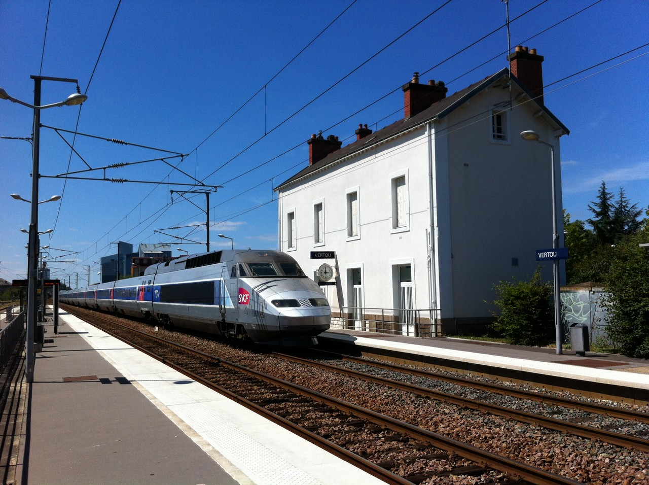 A TGV Atlantique from Paris to les Sables d'Olonne is passing through Vertou station.